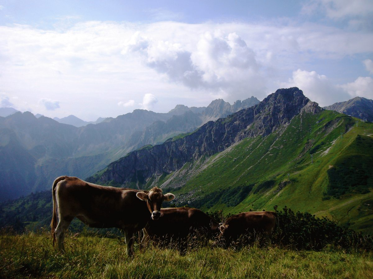 the Warmatsgundkopf in oberstdorf